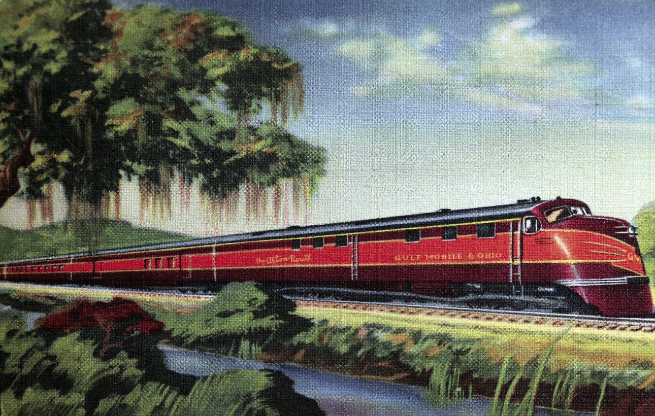 Postcard depiction of the Alton Rebel of the Gulf, Mobile and Ohio Railroad. The train was first running on the Alton Railroad and traveled from Chicago to Mobile, AL.